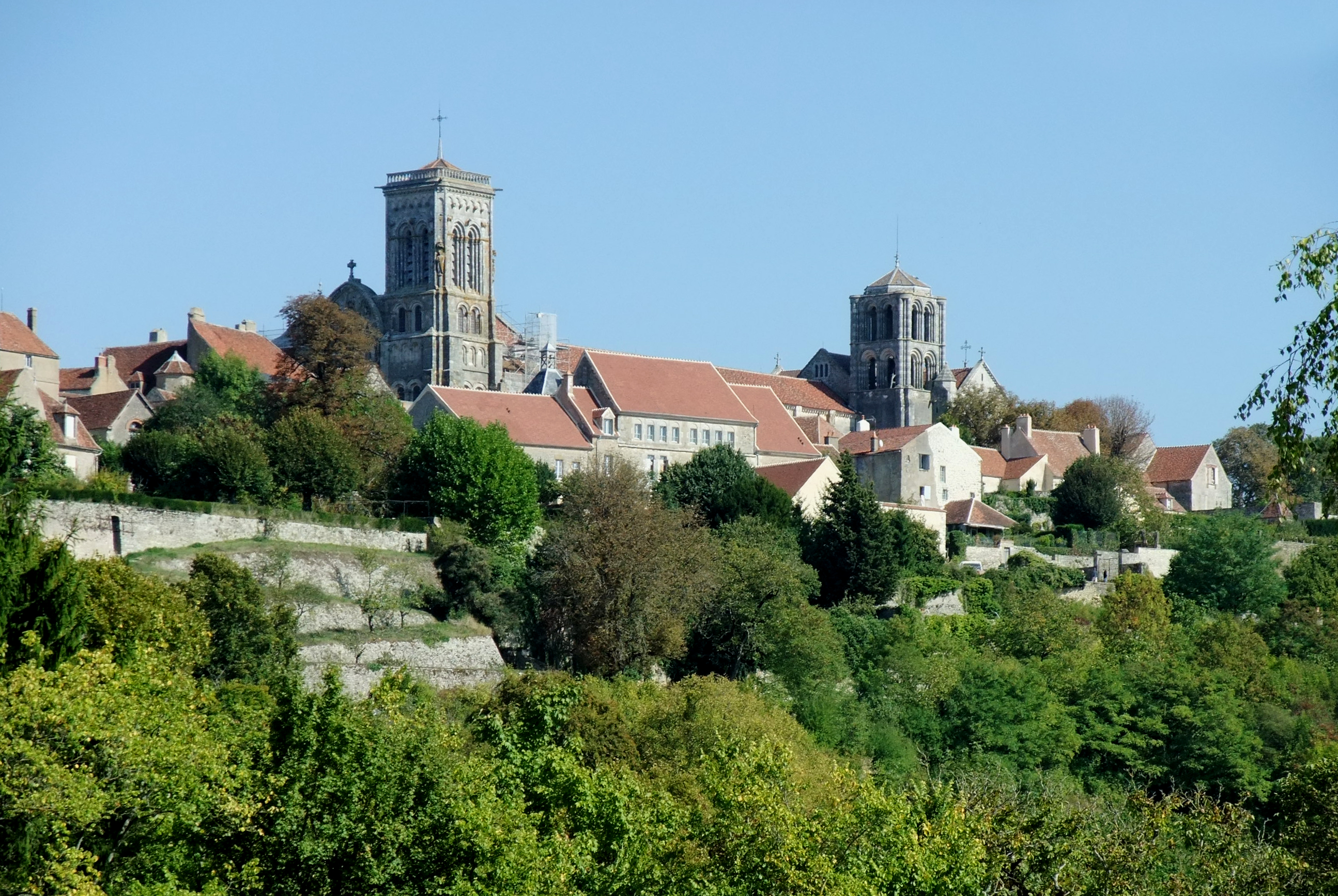 View to basilica Ste-Madeleine in Vézelay, Burgundy, France